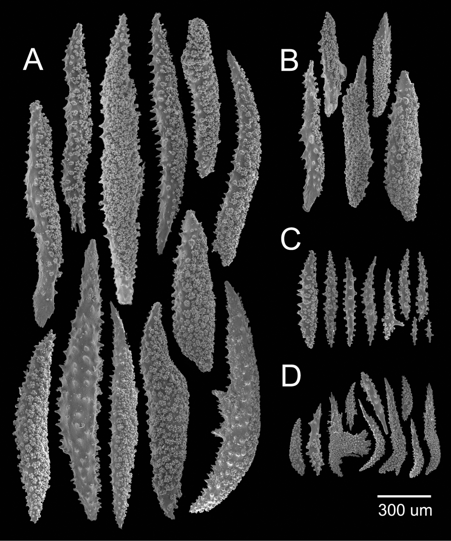 Muricea hispida Verrill, 1866 YPM 567. A, B Calycular and coenenchymal spindles C Axial sheath spindles D Anthocodial sclerites.